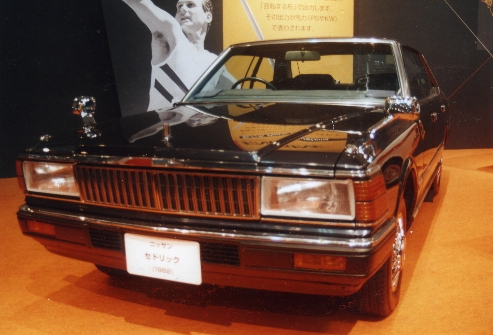 Nissan Cedric series 430